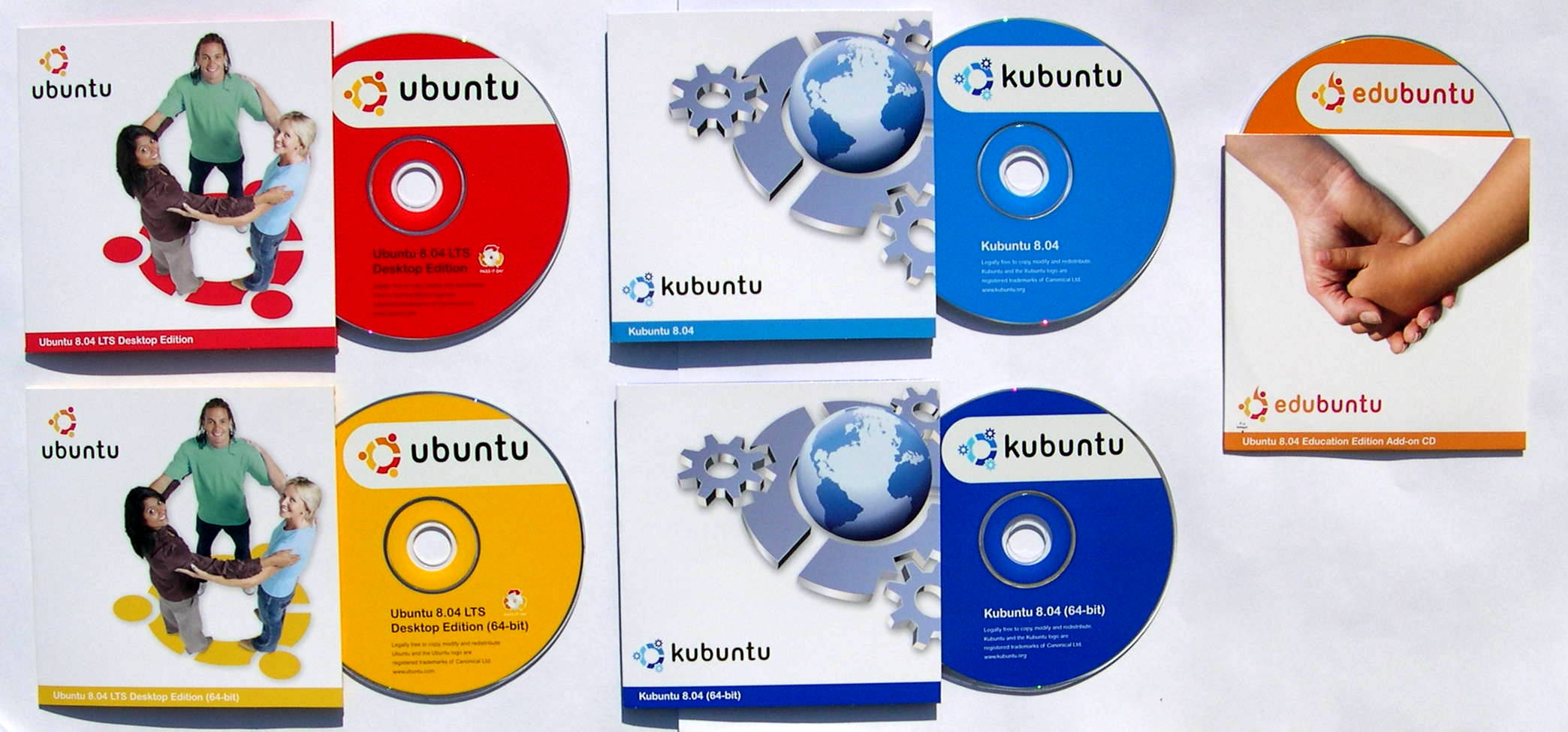 Ubuntu, Kubuntu and Edubuntu CDs (32 and 64 Bit), version 8.04 LTS "Hardy Heron". Can be ordered for free via Ubuntu Shipit.